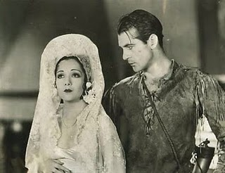 Cropped screenshot of Lupe Velez and Gary Cooper from the film Wolf Song